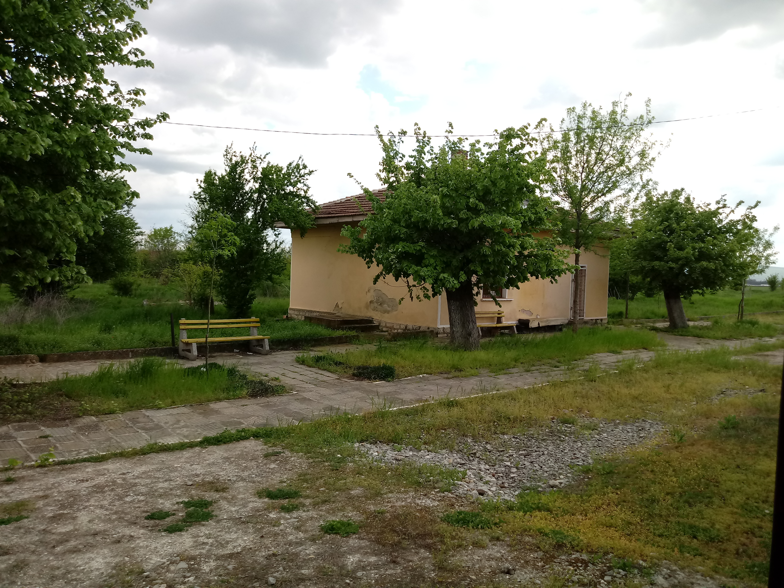 Railway station in the Bulgarian village Asenovtsi